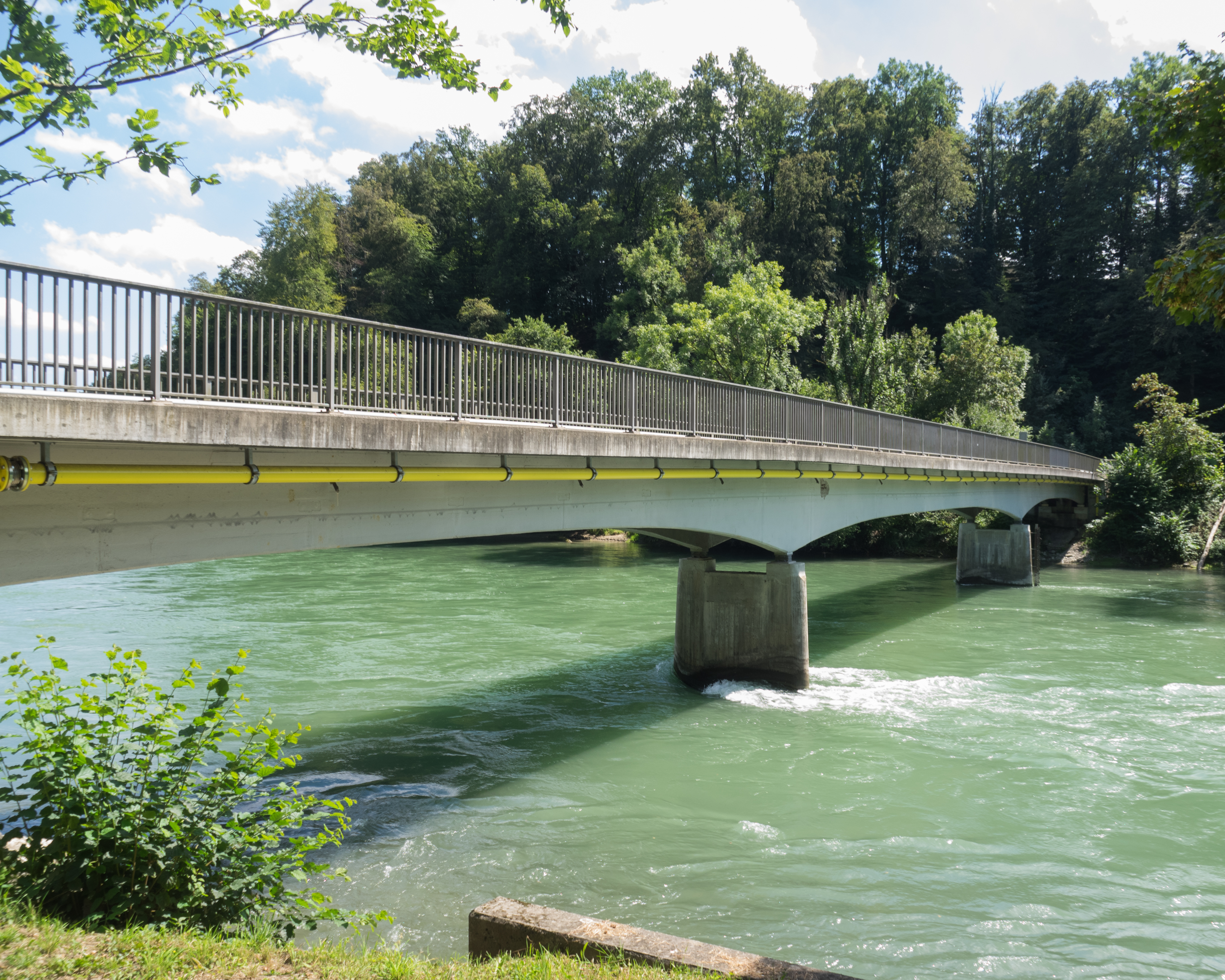 Birmenstorf Bridge over the Reuss River, Mülligen - Birmenstorf, Aargau, Switzerland